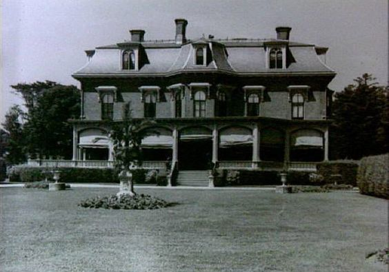 Beaulieu during the Vanderbilt ownership